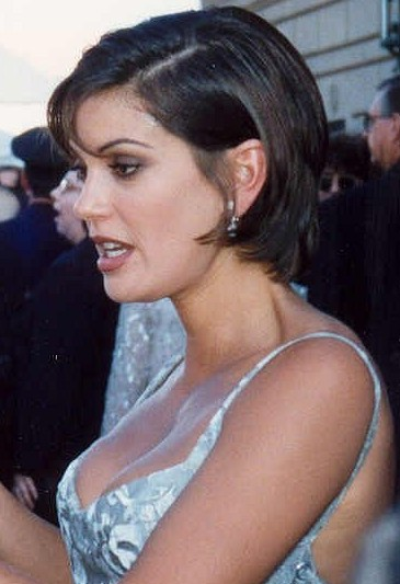 Teri Hatcher outside the 1995 Emmy Awards